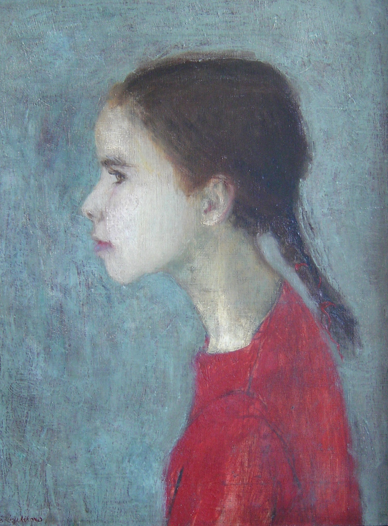 Illustration of free creation: Painting "Portrait of a Girl"; author: painter and restorer (specializing in medieval paintings) Věra Frömlová-Zezuláková (* 1924 - 1998)